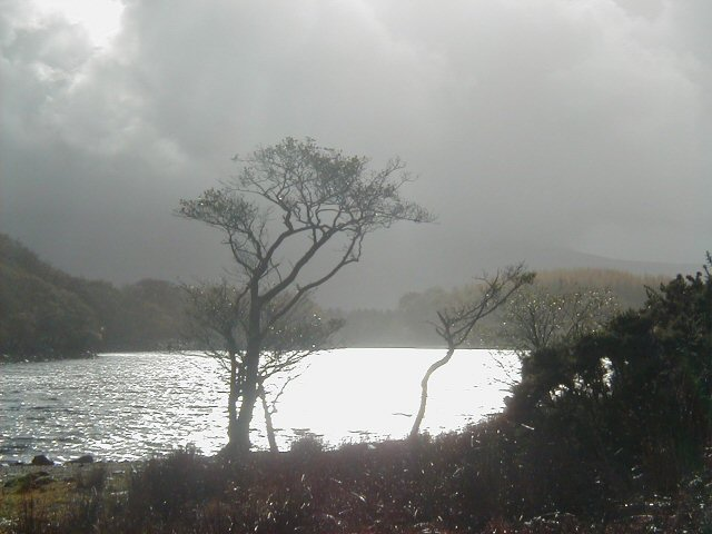 Llyn Cynwch. View SW over the lake just after a heavy shower passed through.